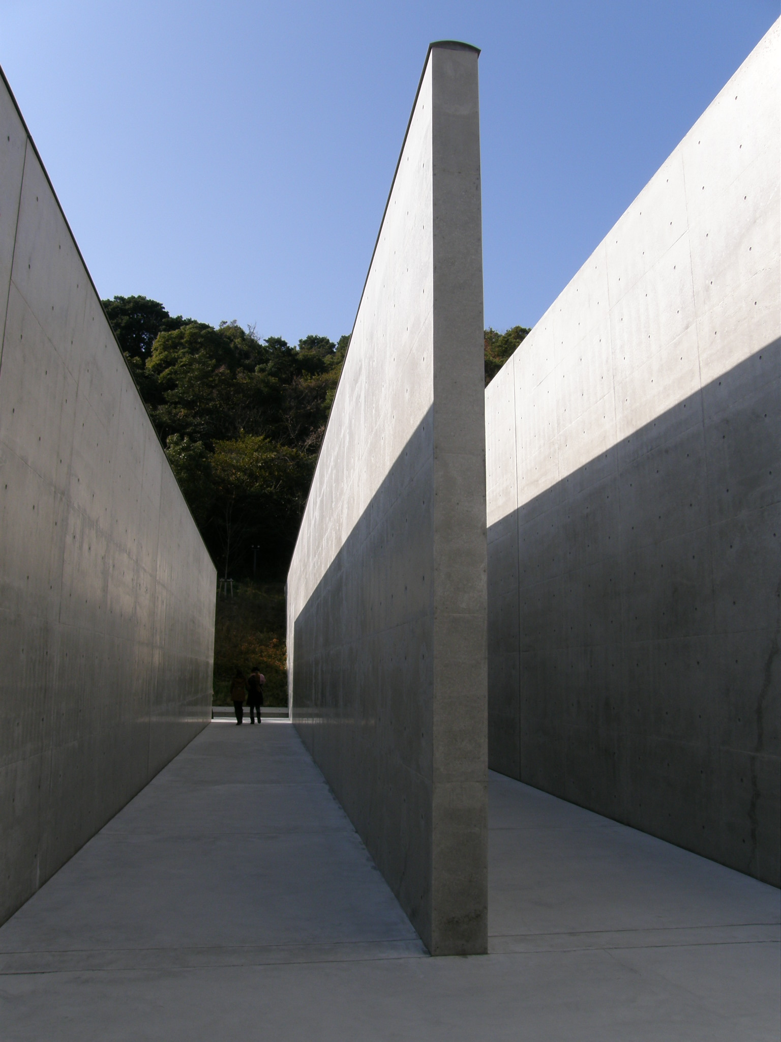 Concrete walls at Lee Ufan Museum — the contemporary art museum in Kagawa prefecture, Japan. Collaborative work of Tadao Ando and Lee U-Fan.